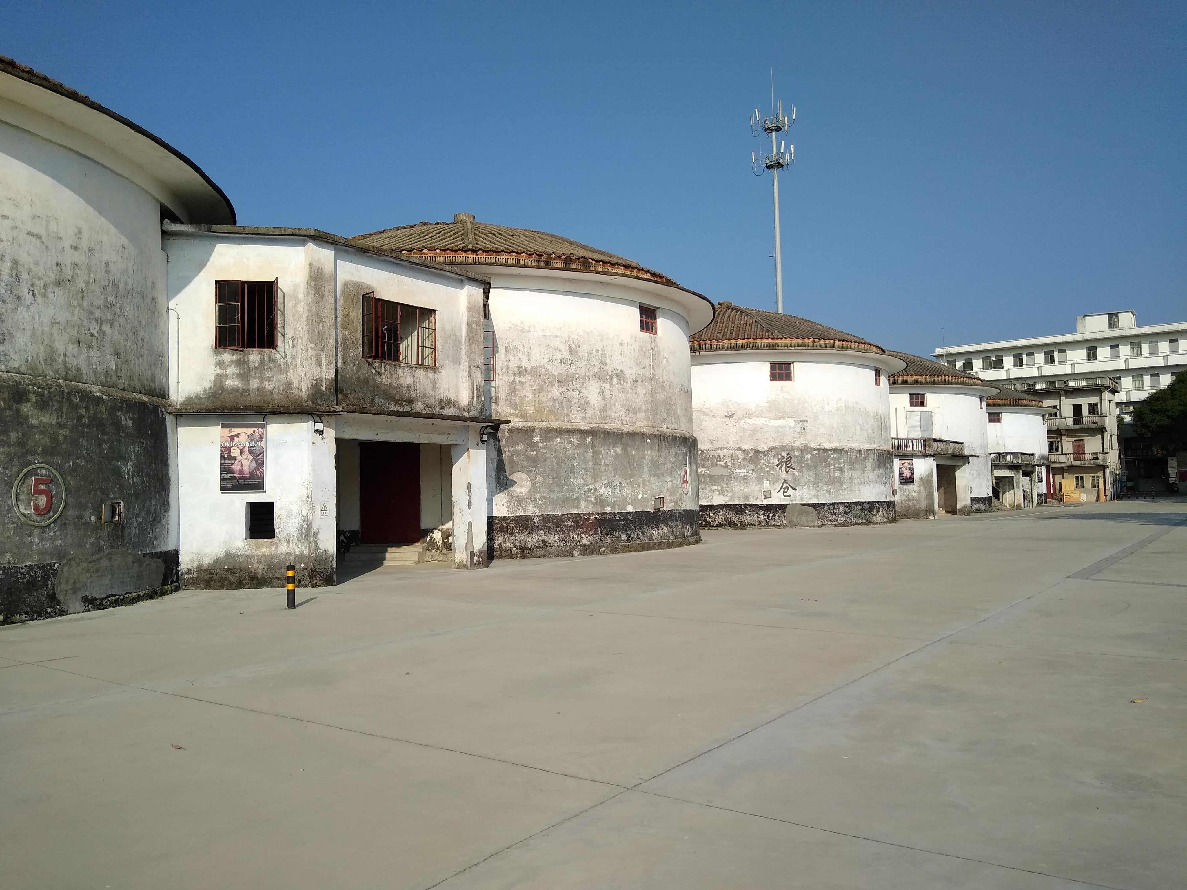 Granaries in Tangkou Town in Kaiping, China.